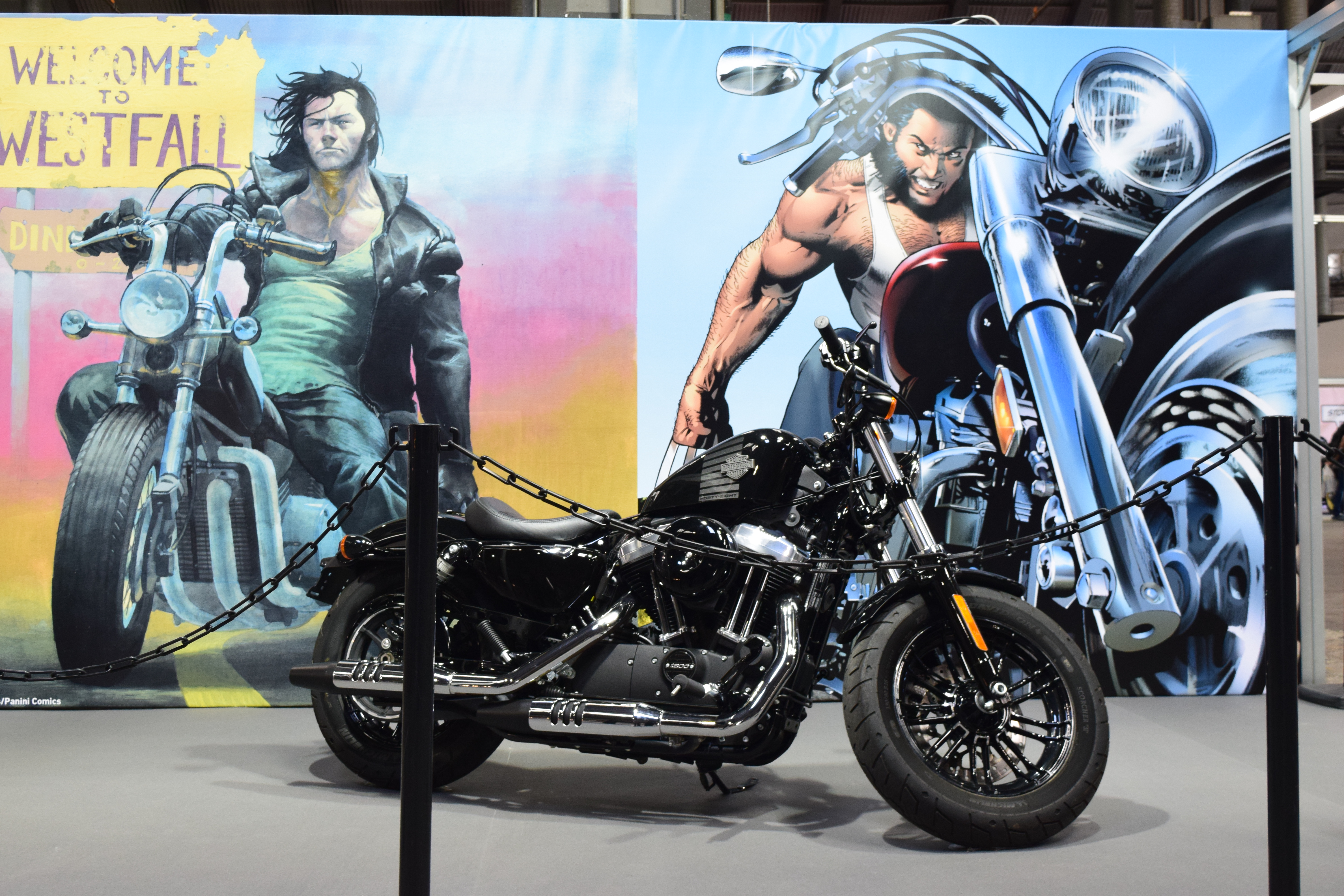 Moto Harley Davidson Sporster Forty Eight. It appears at the comis of Wolverine. Part of the exhibition "Cartoons on wheels". Barcelona Internacional Comic Convention. Friday 6 may 2016.